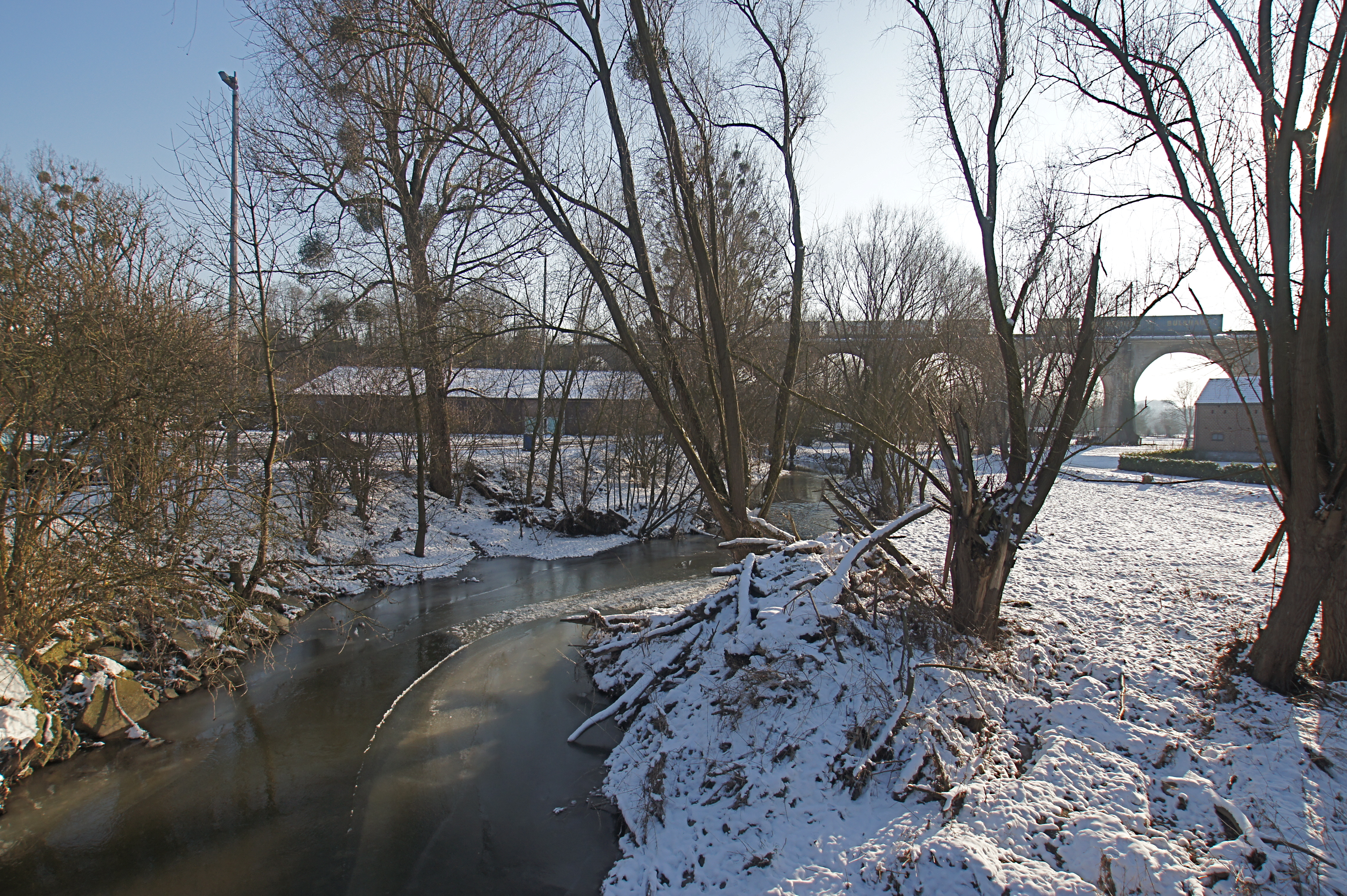 Berneau, Germany: Railwaybridge over the valley of the Berwijn